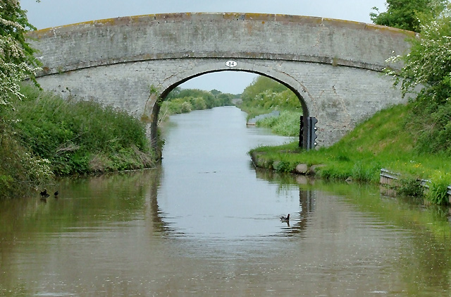 Mickley Bridge (No 84) near Hack Green, Cheshire. On a very straight stretch of the Shropshire Union Canal, this bridge carries only a short track enabling farm access to the fields on both sides of the canal.